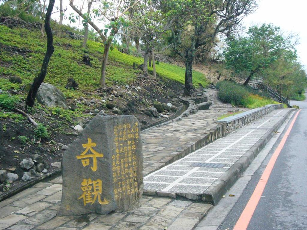 Water running up in Taitung County, Taiwan, R.O.C.